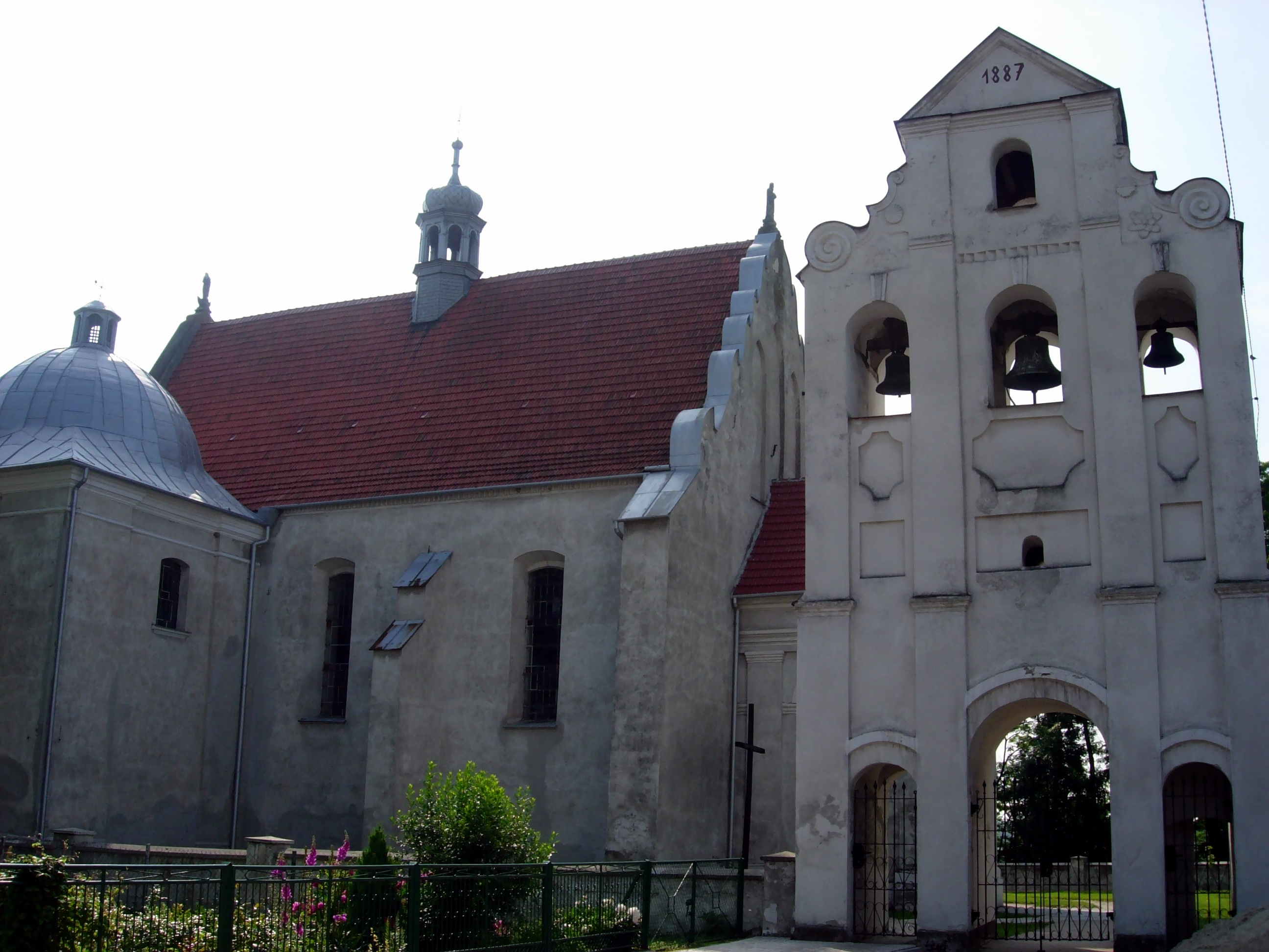 Saint James Church in Opatowiec, Poland